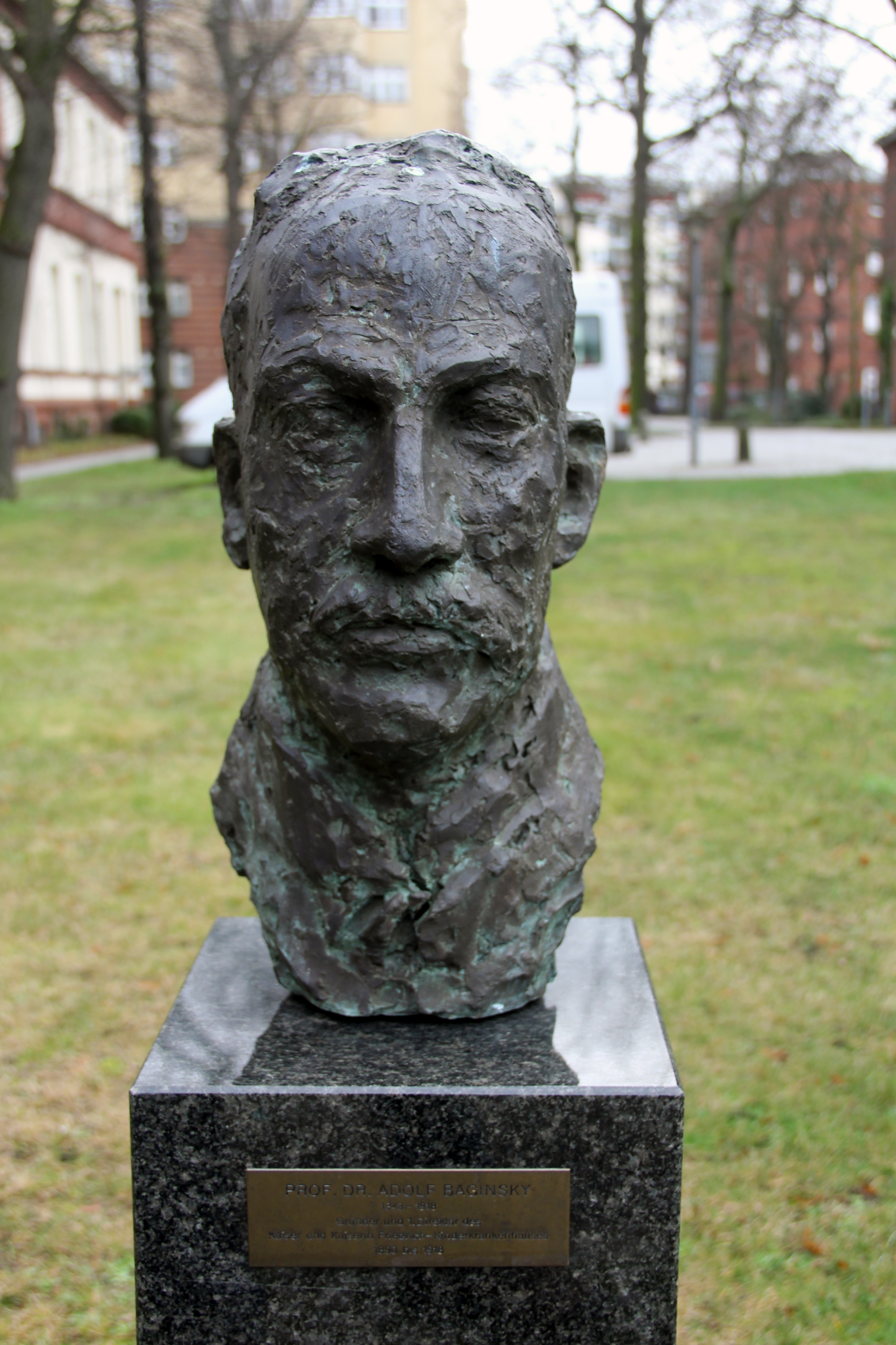 Bust, Adolf Baginsky, Reinickendorfer Straße 61, Berlin-Wedding, Germany